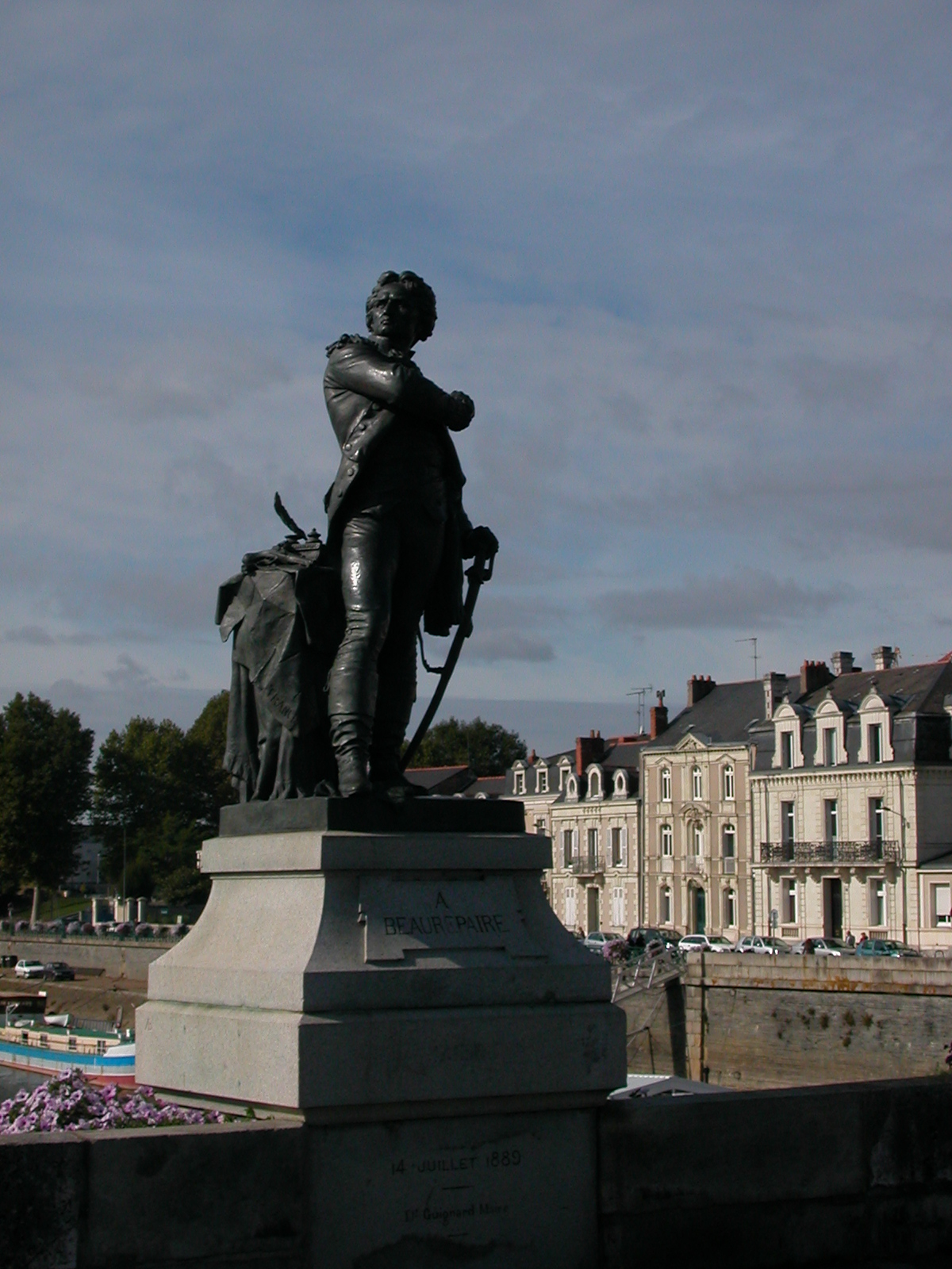 Monument to the General Beaurepaire (1888) on the Pont de Verdun in Angers, by Louis Maximilien Bourgeois (1839-1901).